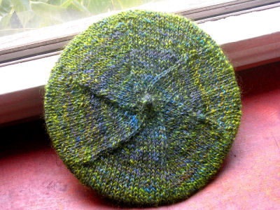 For Franca Bartoli from handspun wool plied with mohair.